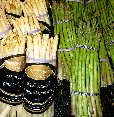 Asparagus at Kroger. White asparagus on the left, green asparagus on the right.